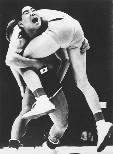 Osamu Watanabe, 1964 Olympics